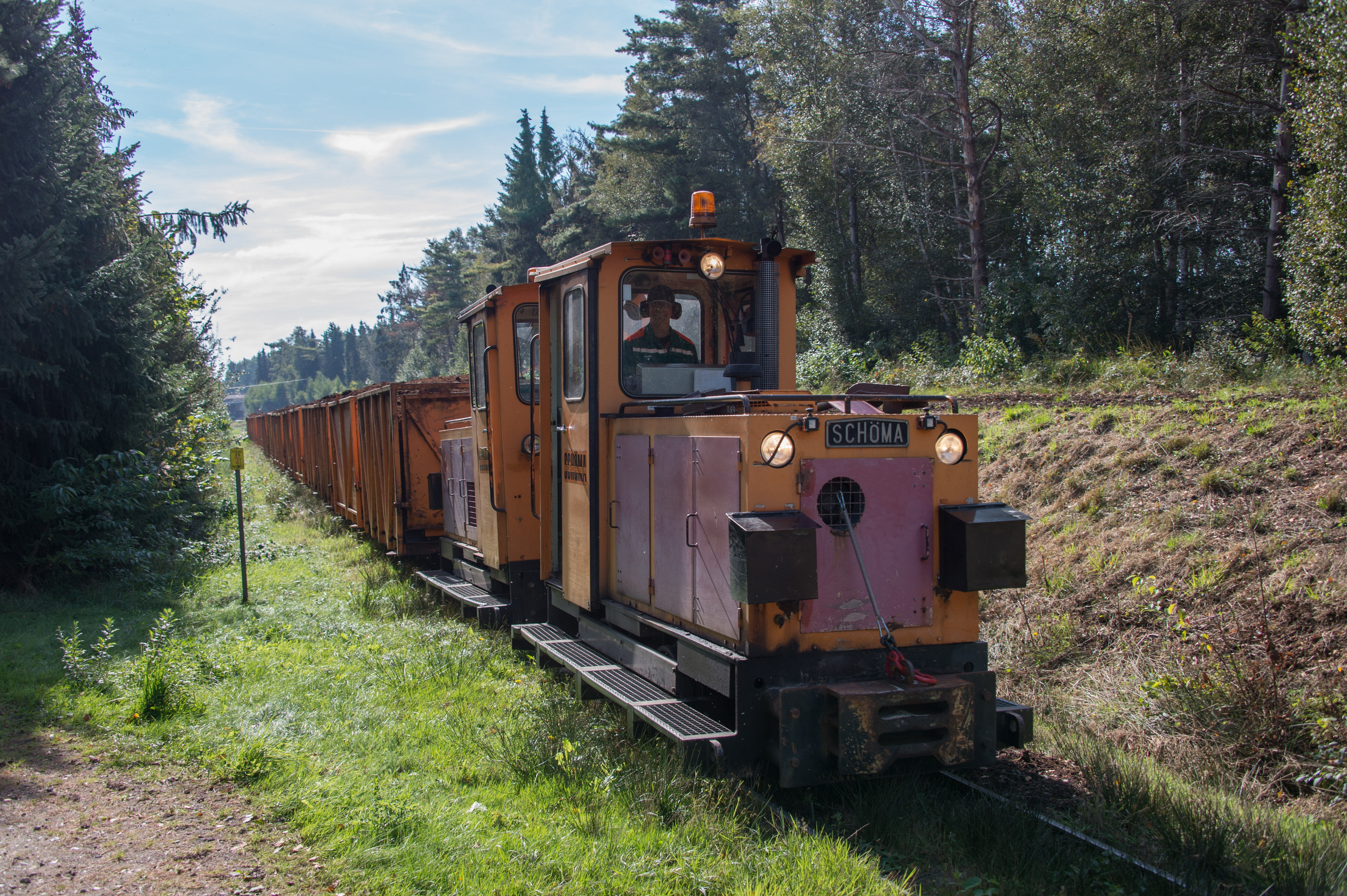 Feldbahn im Provinzialmoor, Emsland, Niedersachsen, Norddeutschland